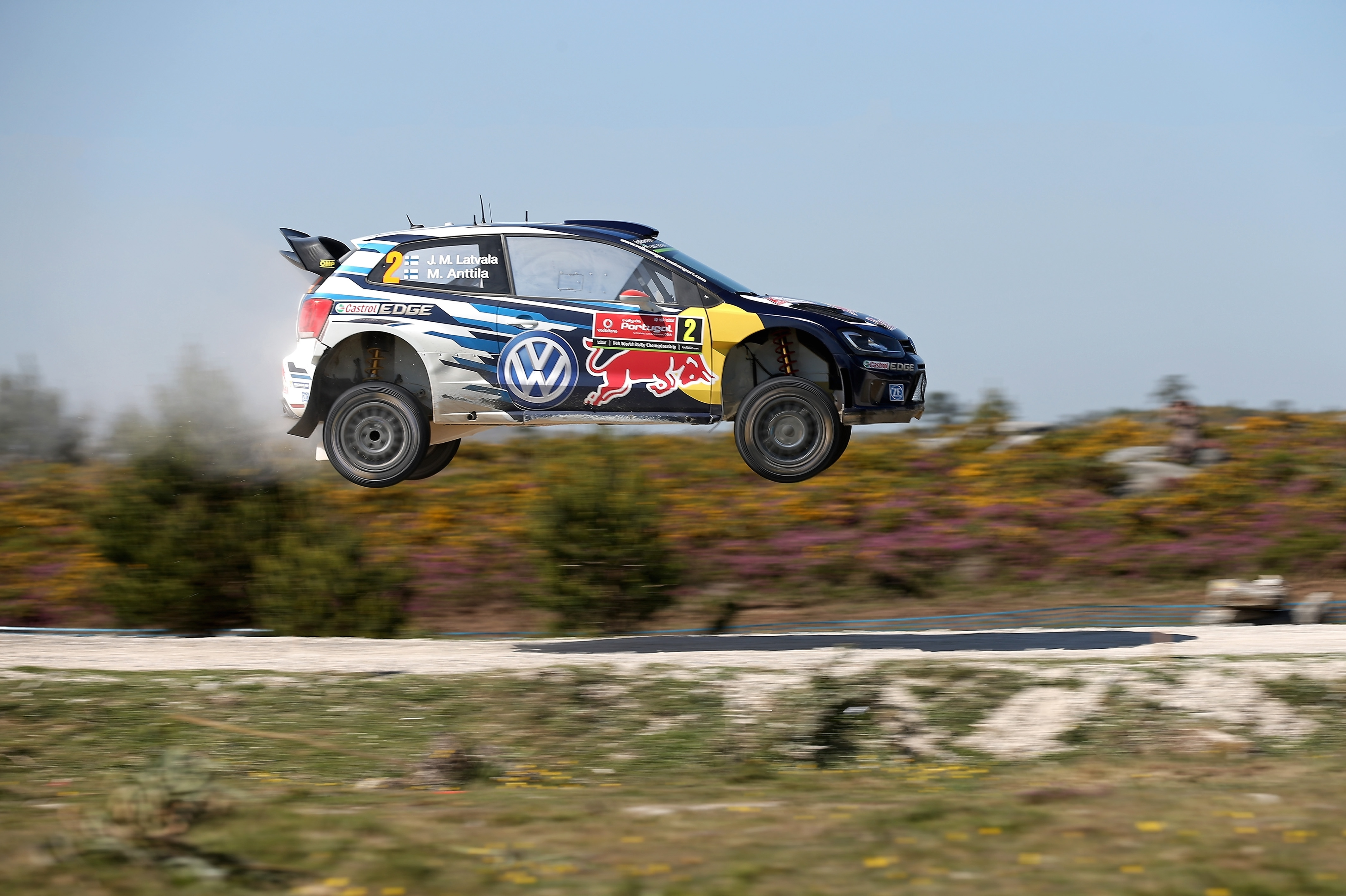 Jari-Matti Latvala and co-driver Miikka Anttila in their VW Polo R WRC at the 2015 Rally Portugal.